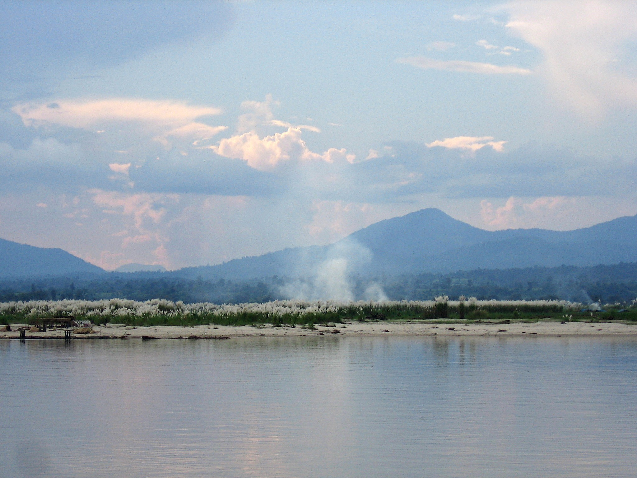 Ayeyarwady River between Bhamo and Khata in Myanmar.